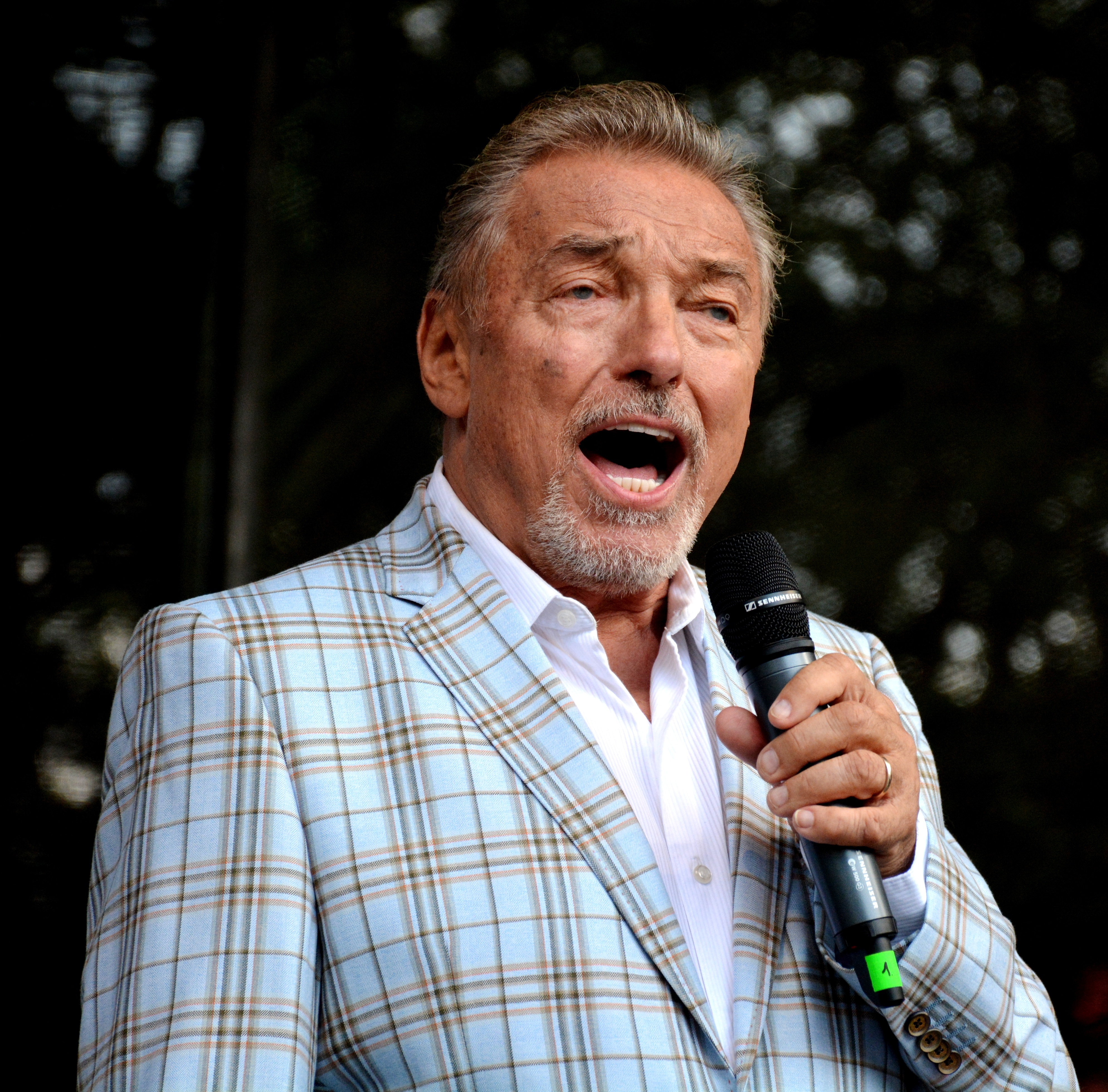 Karel Gott, Czech vocalist